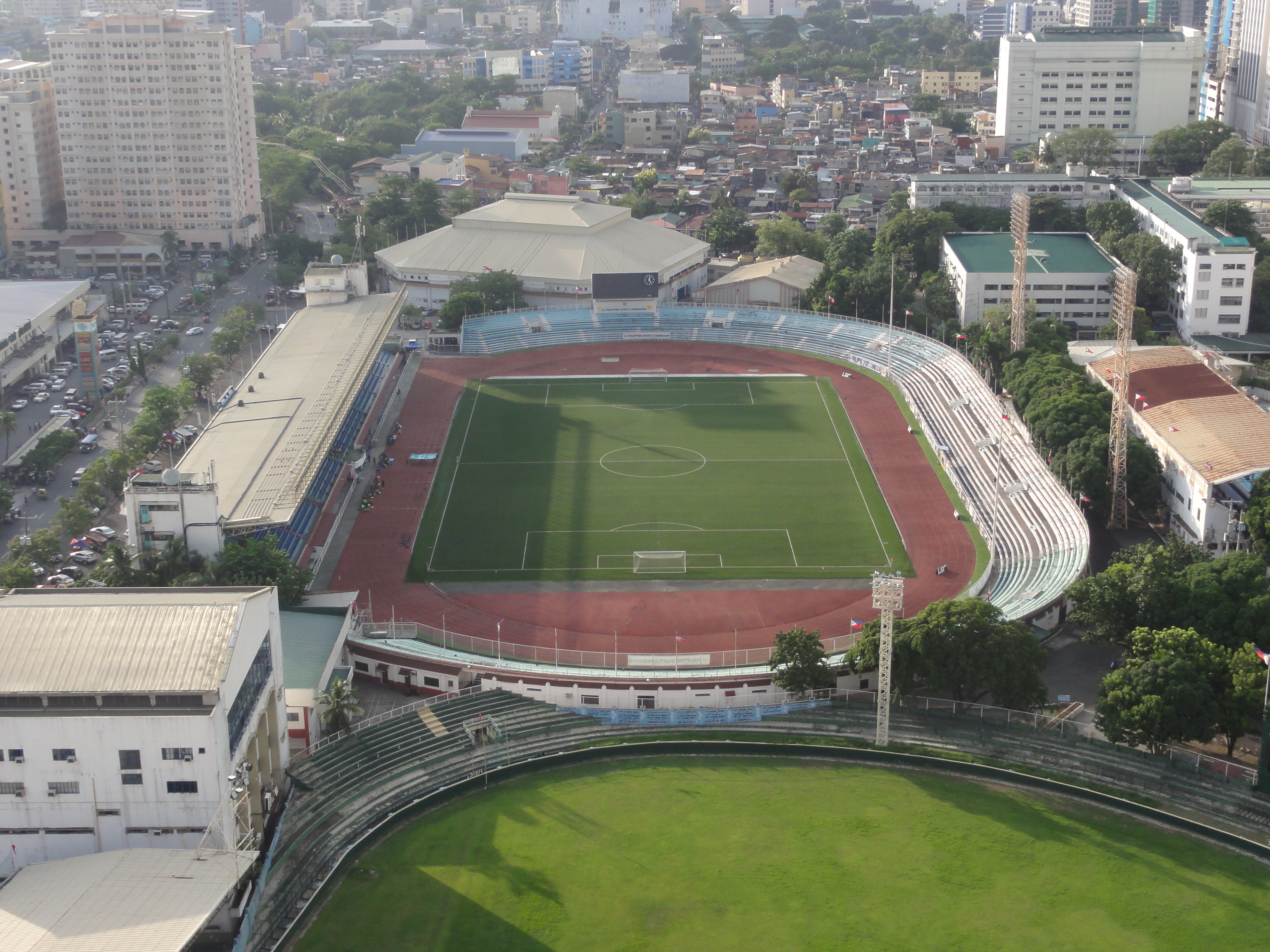 Top view of the football stadium of Rizal memorial Sports Complex in Malate, Manila as of June 2015.